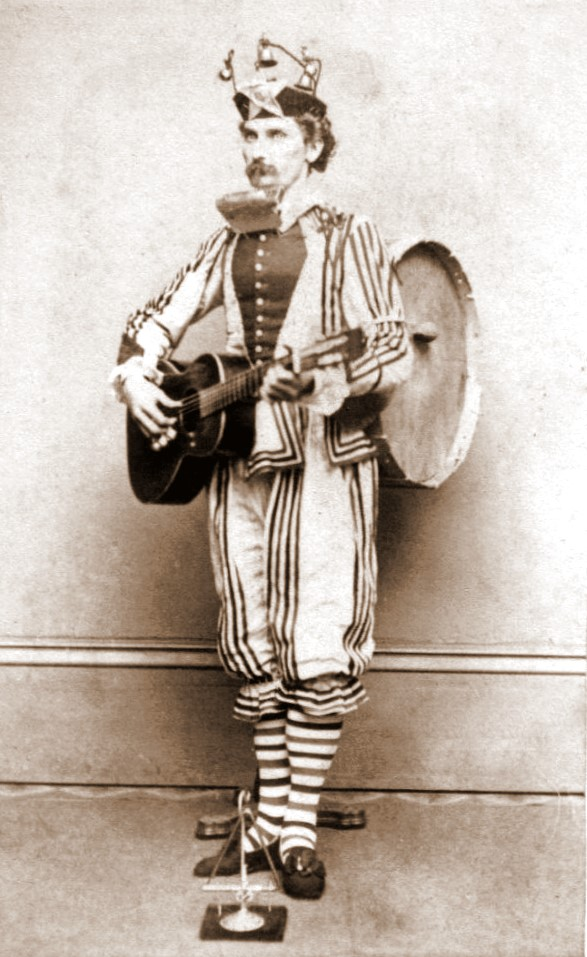 One man band dressed as a jester. CDV by Knox of Athol Depot, MA. Playing guitar with a neck mounted harmonica, has a drum on his back and a triangle at his feet.